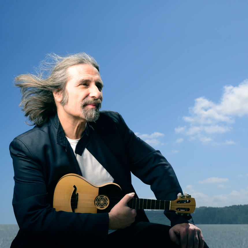 António Gamito Photo